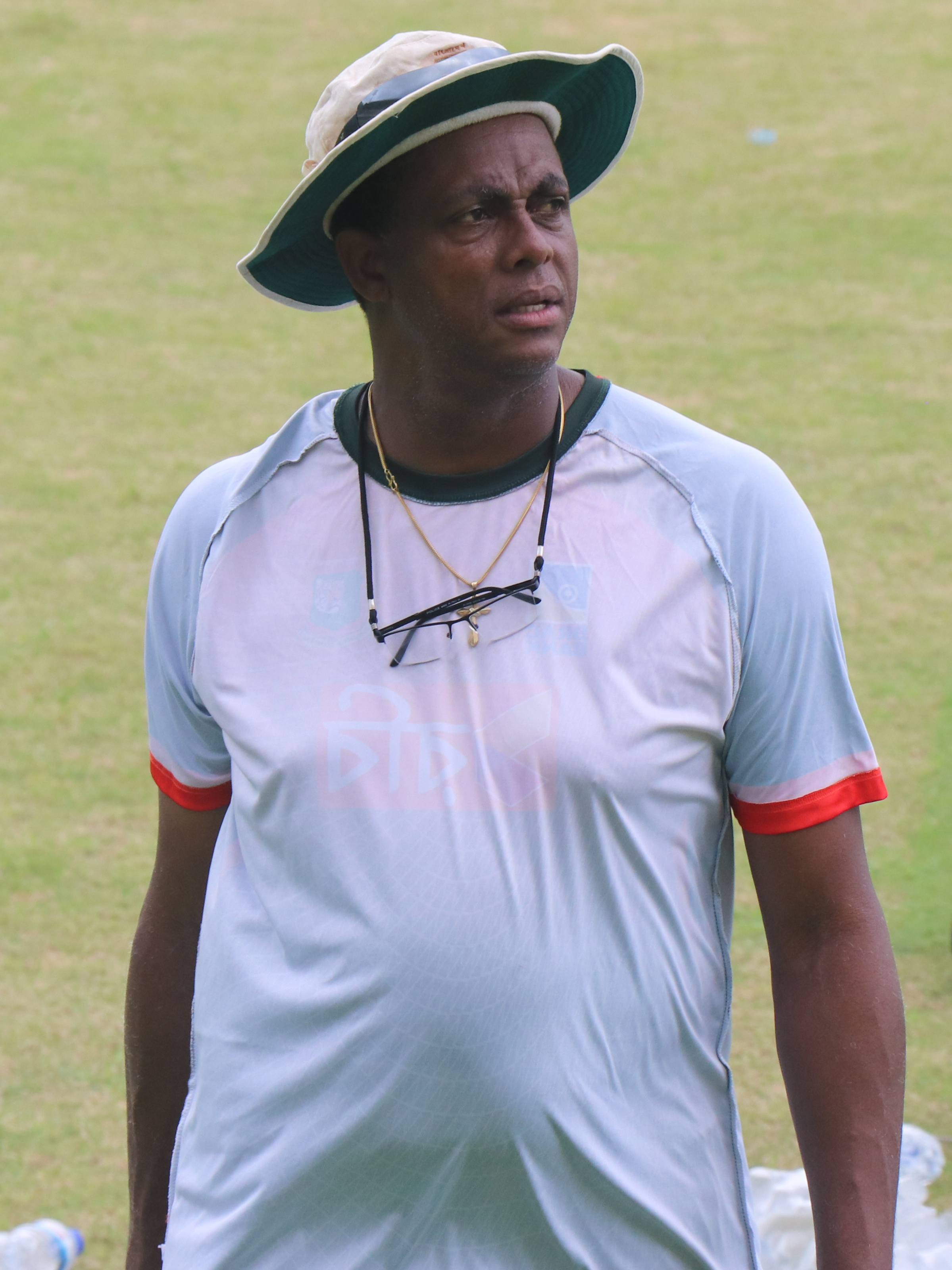 As the Specialist Bowling Coach of Bangladesh Cricket Team Courtney Walsh busy on the field with the team Bangladesh